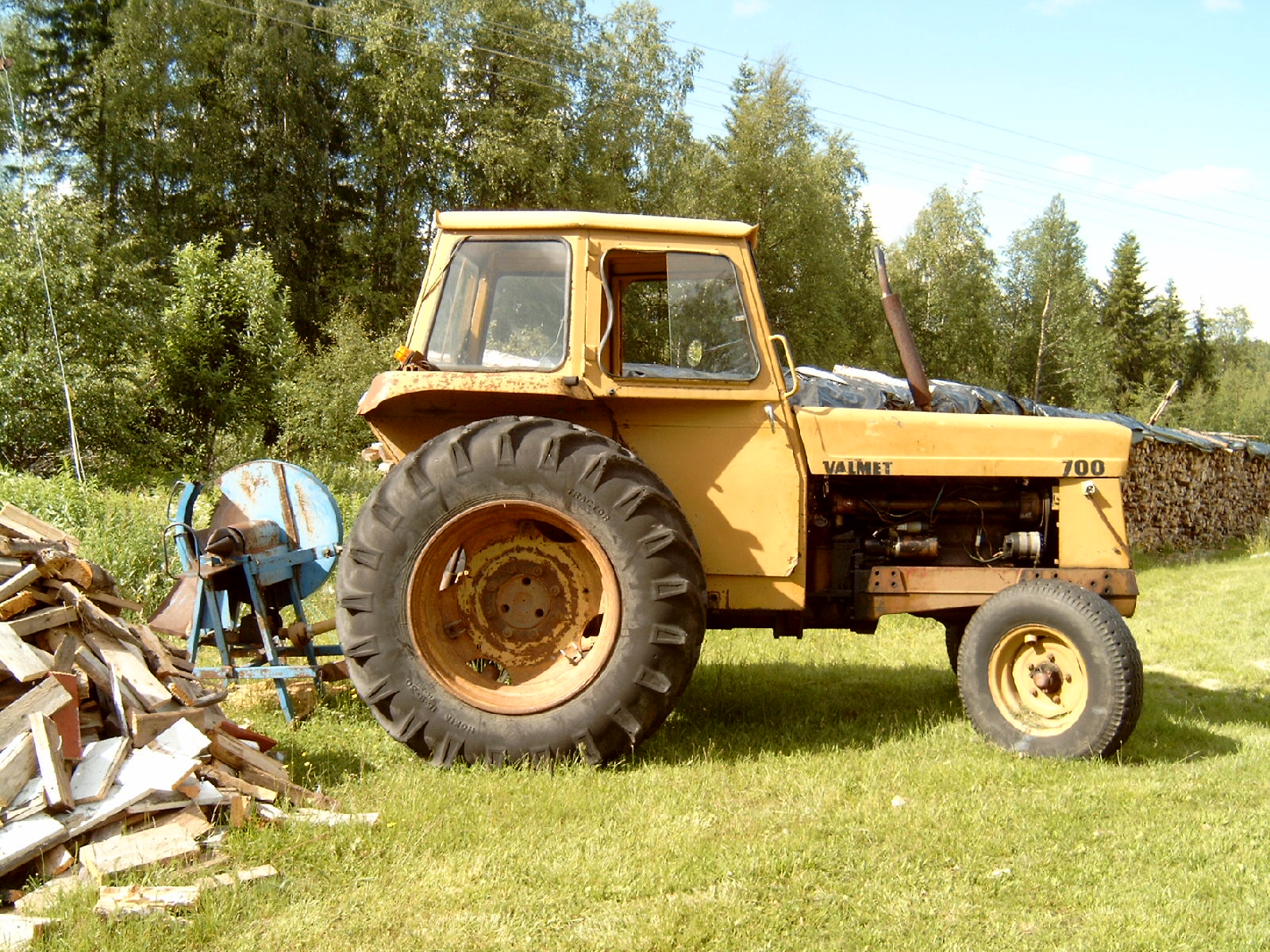 Tractor: Valmet 700